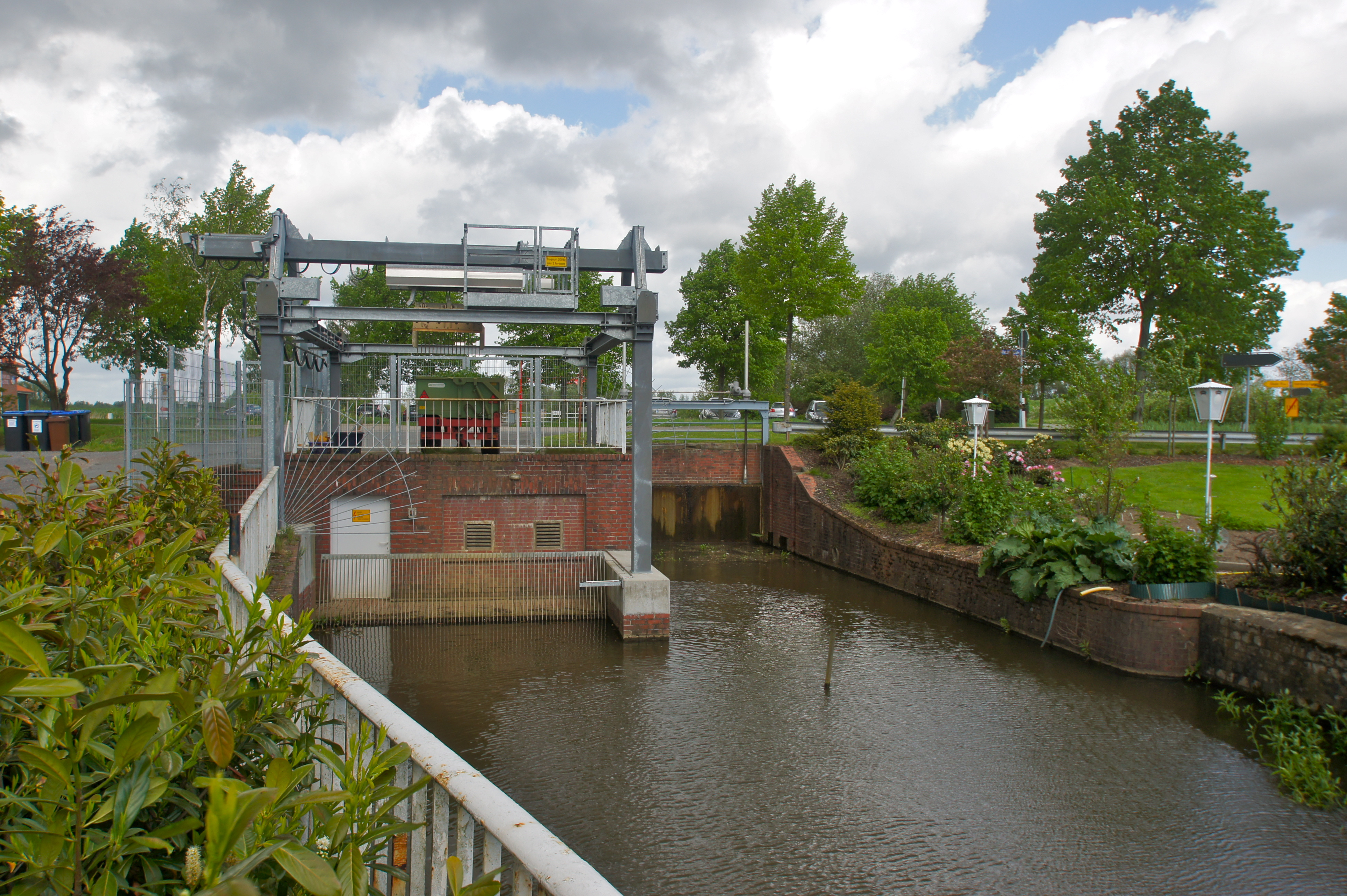 Borstel (Jork) (Neuenschleuse), Germany: Entrance of the drainage sluse at the Neuenschleuser Wettern